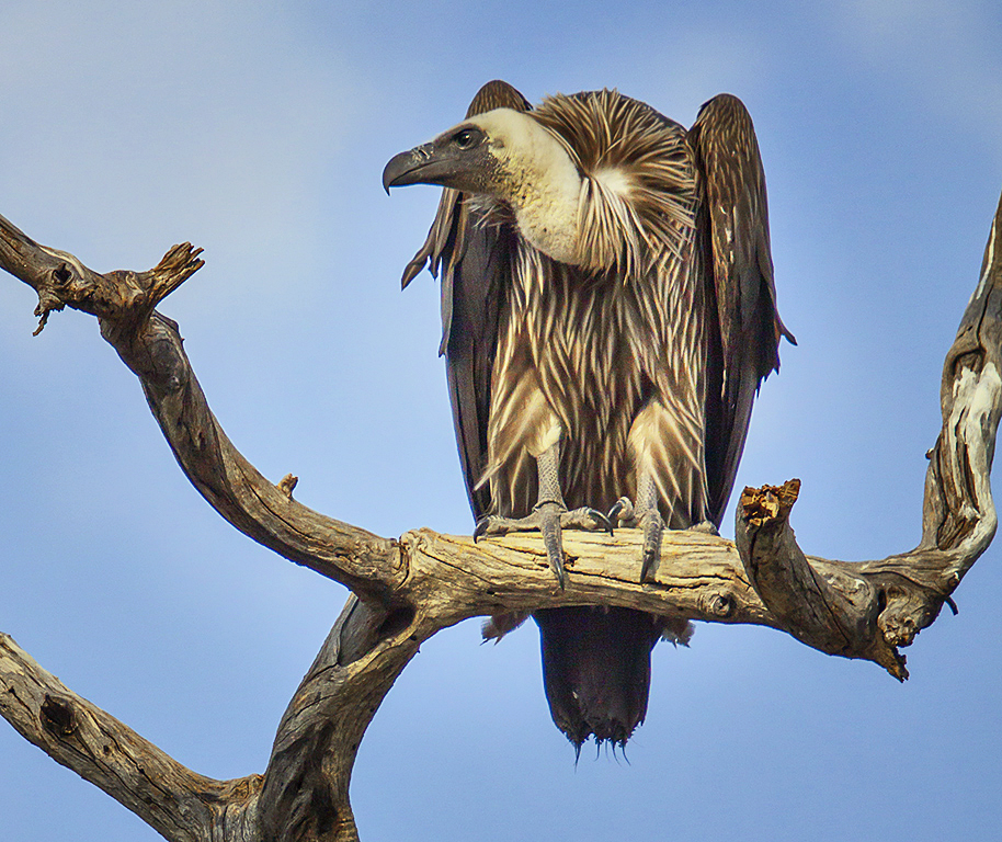 White-backed Vulture (Gyps africanus) is an Old World vulture in the family Accipitridae. In 2012 it was uplisted to Endangered. Taken at the Chobe river Botswana.